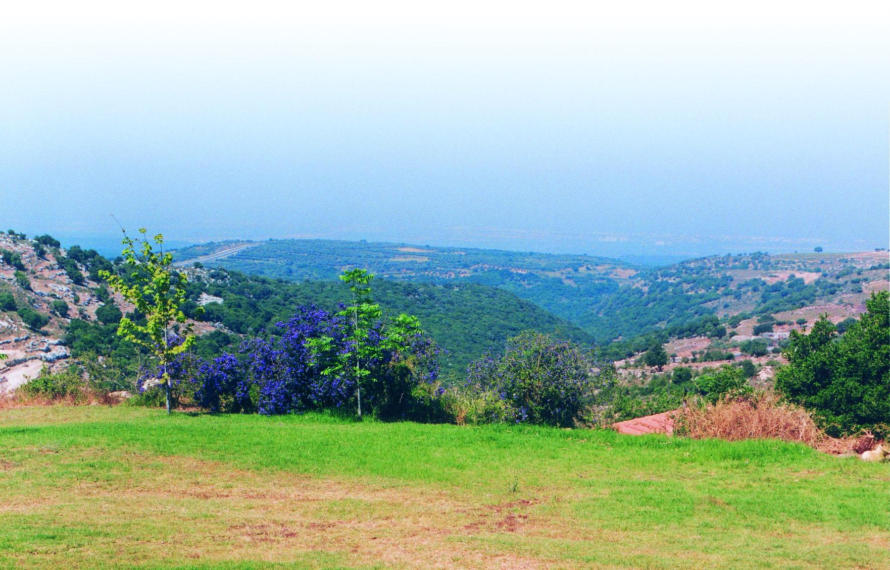 Looking west towards Nahariya and the open Mediterrenean